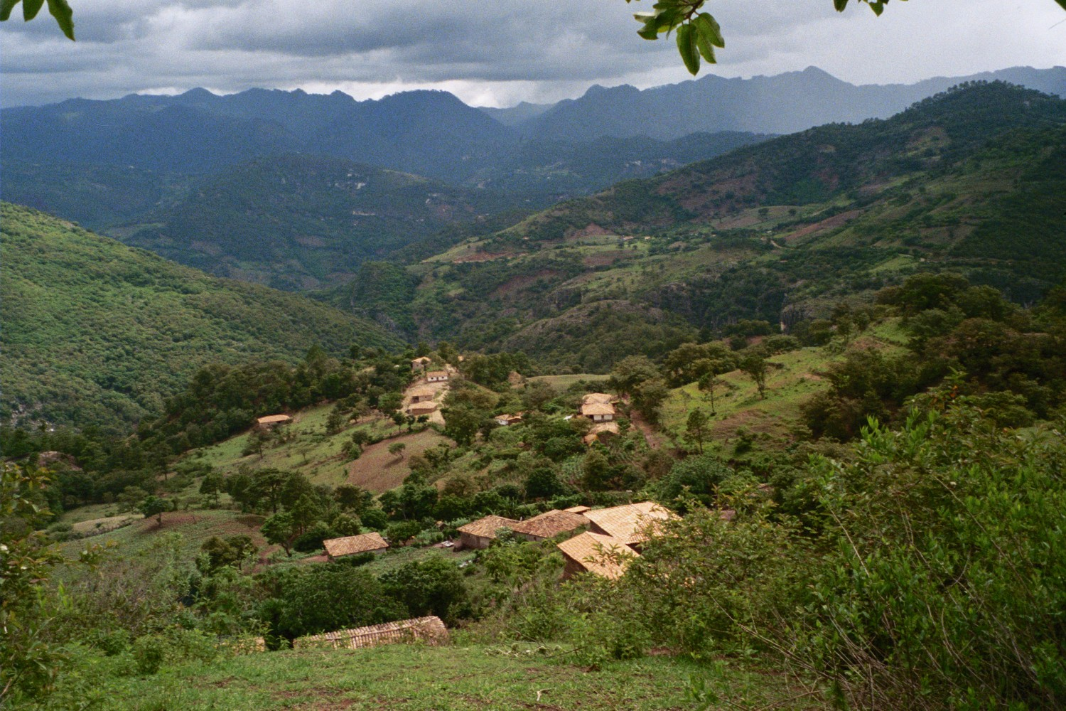 San Isidro is a small town located in the Celaque mountains of Honduras